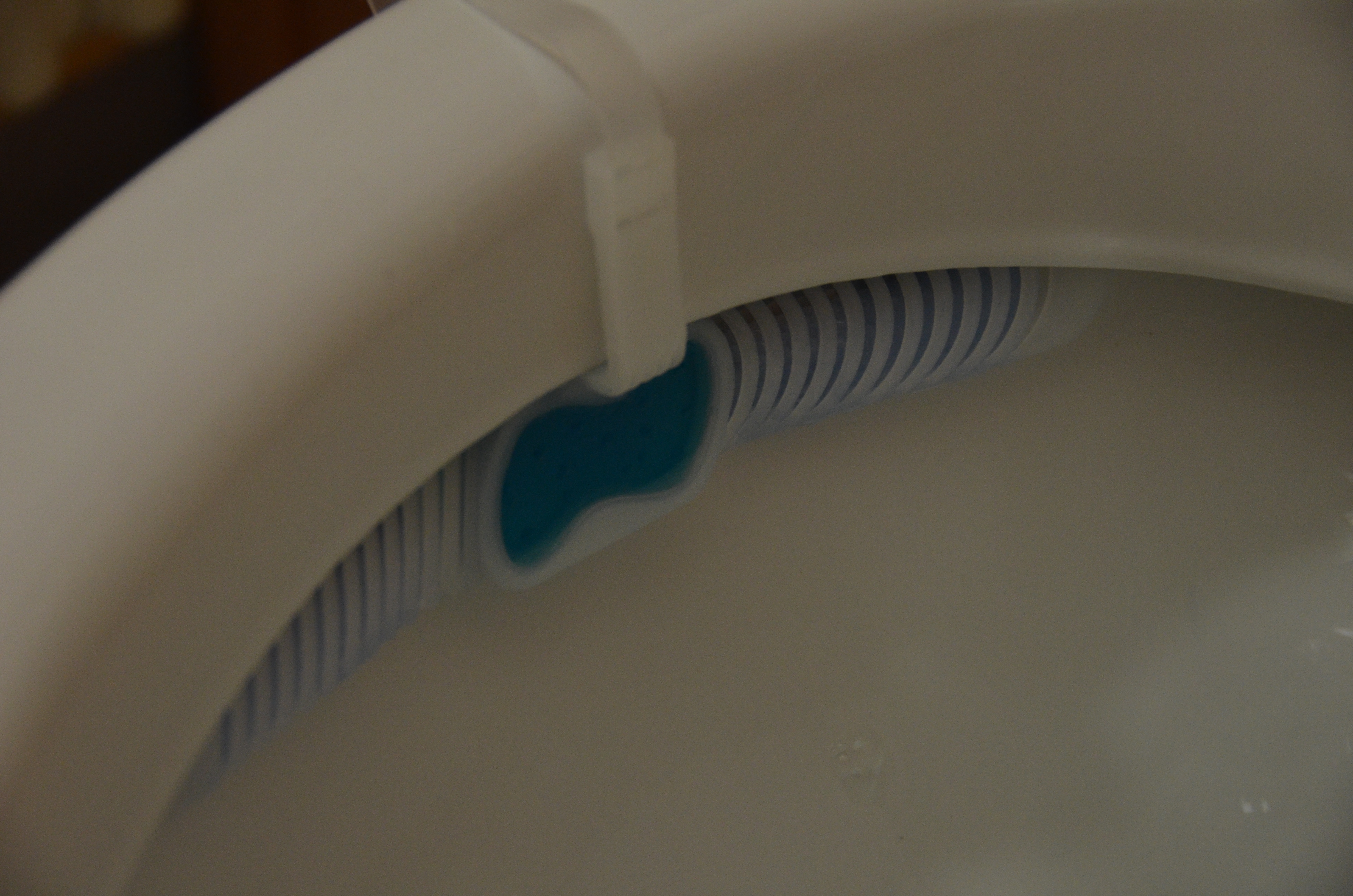 Toilet cleaner